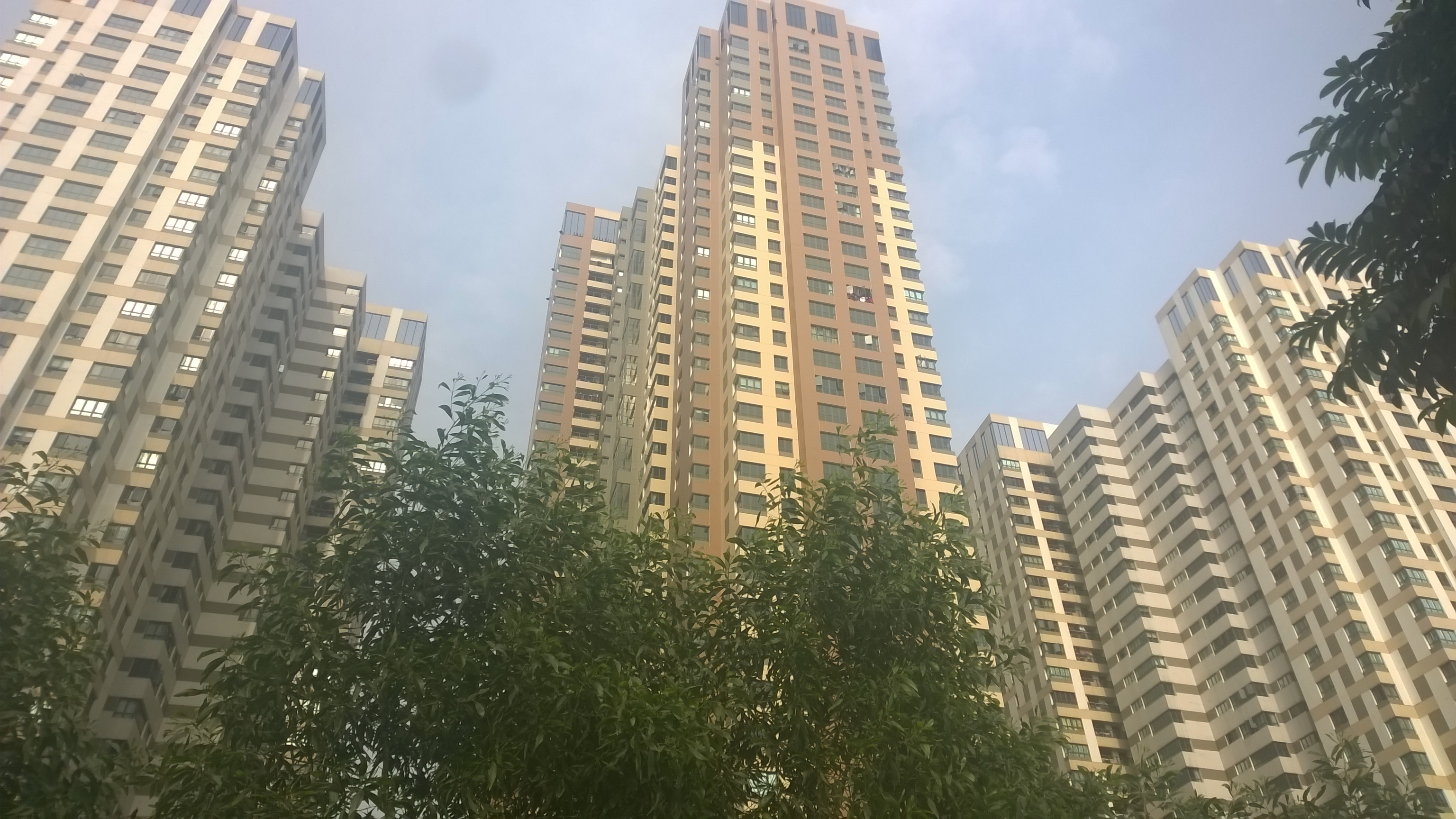 The apartment buildings newly created in Ha Dong.